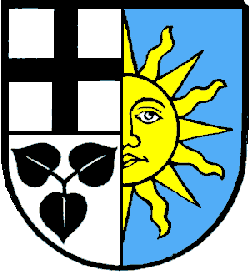 Coat of arms of Heilbronn-Sontheim